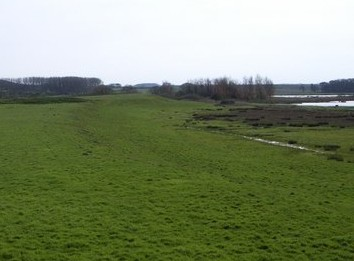 cropped version of Commons file Holkham_Iron_Age_Fort_from_the_Joe_Jordon_Bird_Hide_-_geograph.org.uk_-_443400.jpg The iron age fort is viewed here from the Joe Jordon hide which is in a raised position overlooking both the fort and an area of water shown to the right, part of Holkham National Nature Reserve. An English Nature information board inside the hide states that "The raised area of humps and bumps you can see from the windows of the hide are the remains of an Iron Age (650 BC to AD 43) fort, known as Holkham Camp. It is one of only six sites of this type known in Norfolk." It also states that "The site was chosen because it was easy to defend at the time, being at the end of a sand spit that was isolated from the mainland by tidal salt marshes. The only access by dry land to the fort was from the seaward side, along the narrow raised sand spit that can be seen running from beneath the hide to the fort."